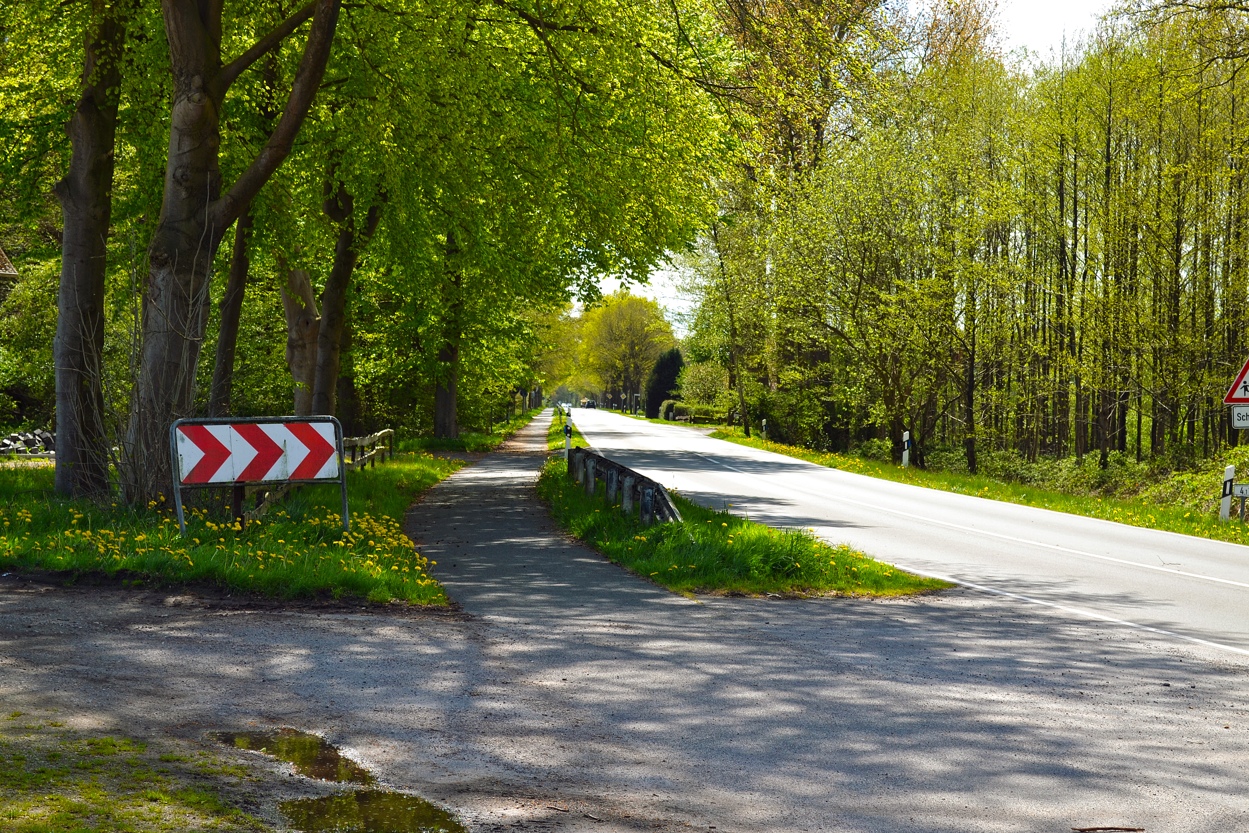 Image of the K102 in Spreckens, Bremervörde, Niedersachsen. Taken in south view.